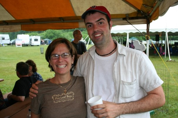 Wilson Savoy Picture